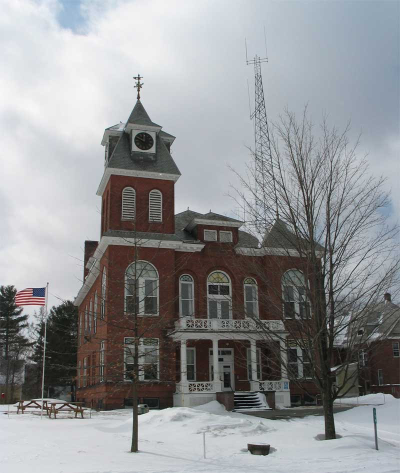 Description: Photograph of Courthouse in Hyde Park, Vermont (Lamoille county seat) Source: Photograph taken by Jared C. Benedict on 13 March 2004. Copyright: © Jared C. Benedict. Other versions: smaller version (Info Page)